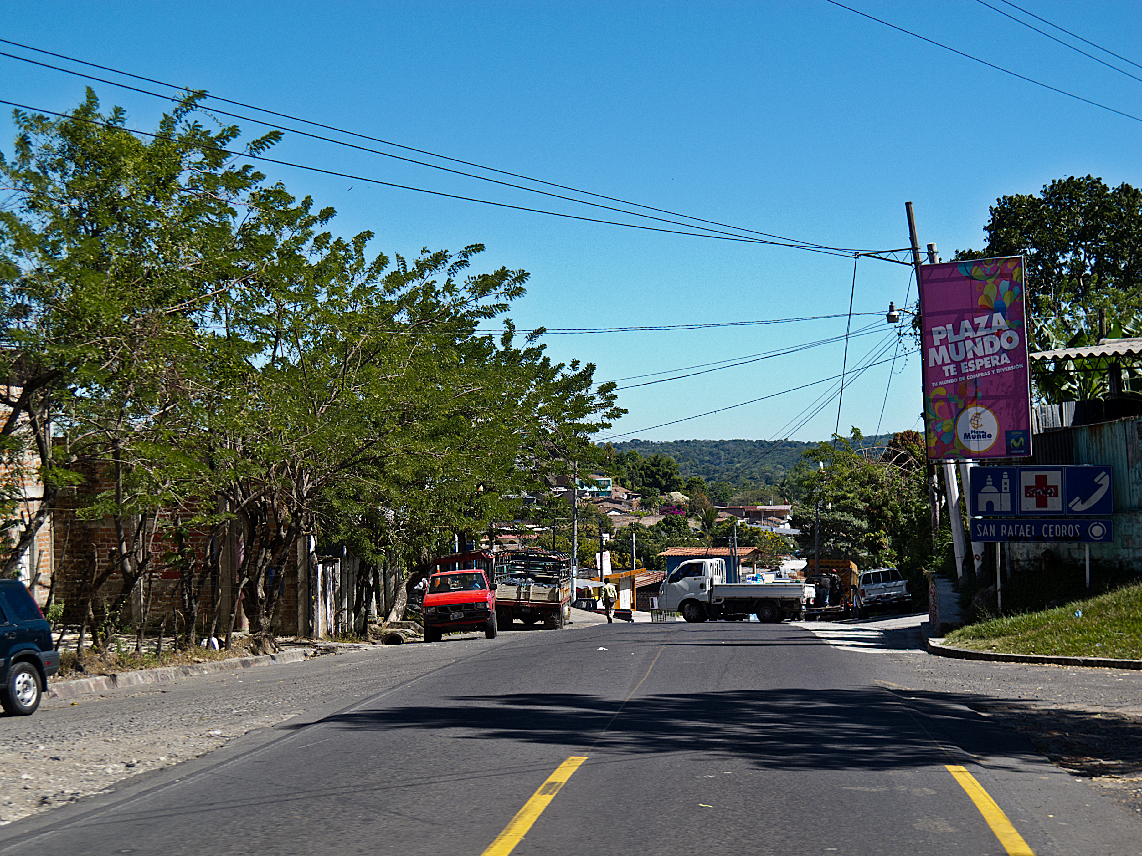 Pic of San Rafael Cedros, Cuscatlan, El Salvador